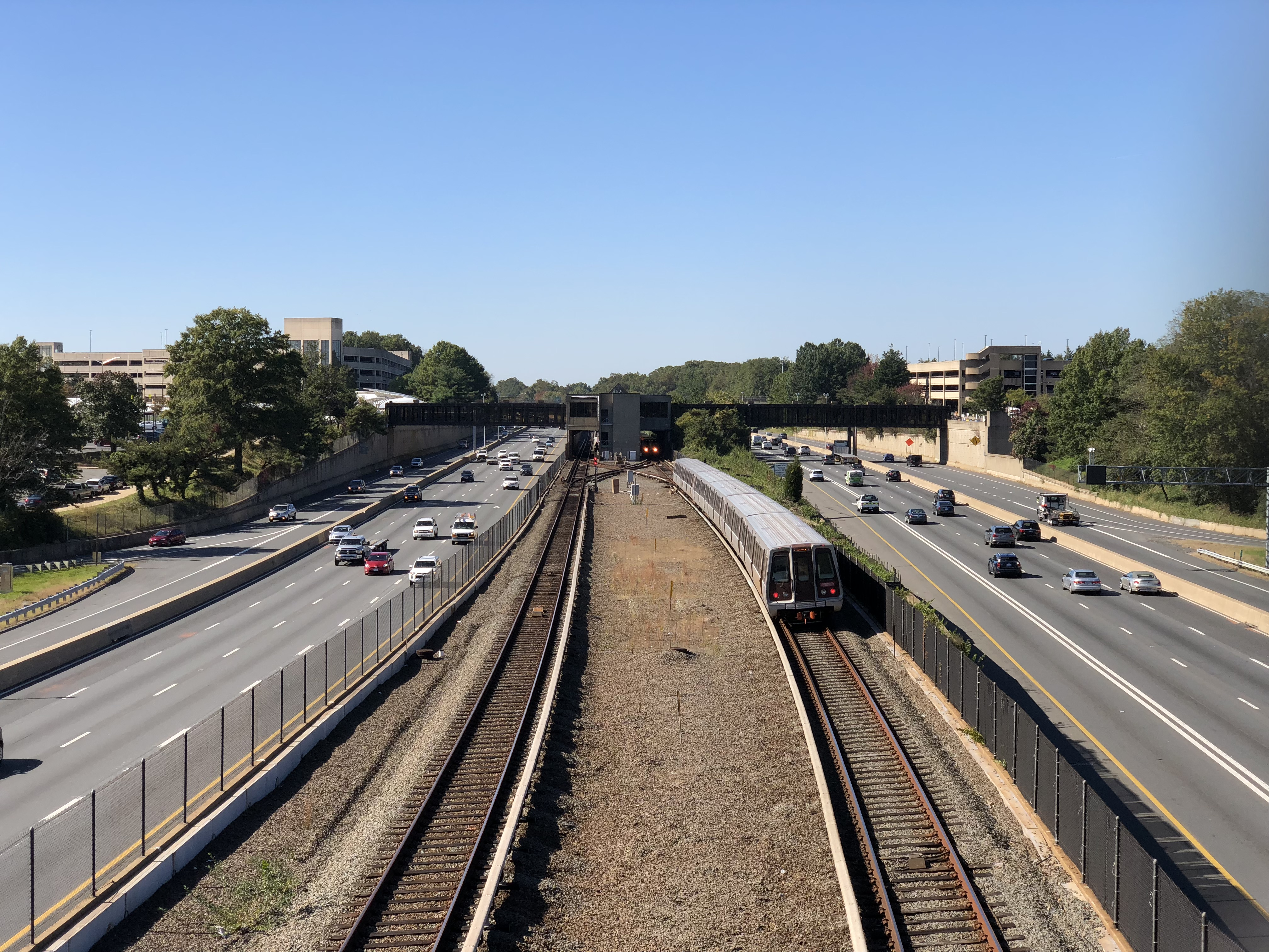 View west along Interstate 66 and the Orange Line of the Washington Metro from the overpass for Virginia State Route 243 (Nutley Street) in Oakton, Fairfax County, Virginia